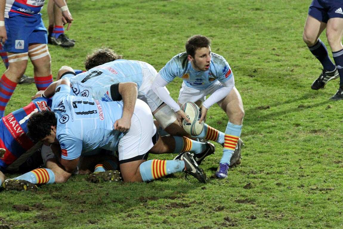 Tom Ecochard en action face à Rovigo (Ita) lors de la 6ème journée d'Amlin Challenge Cup